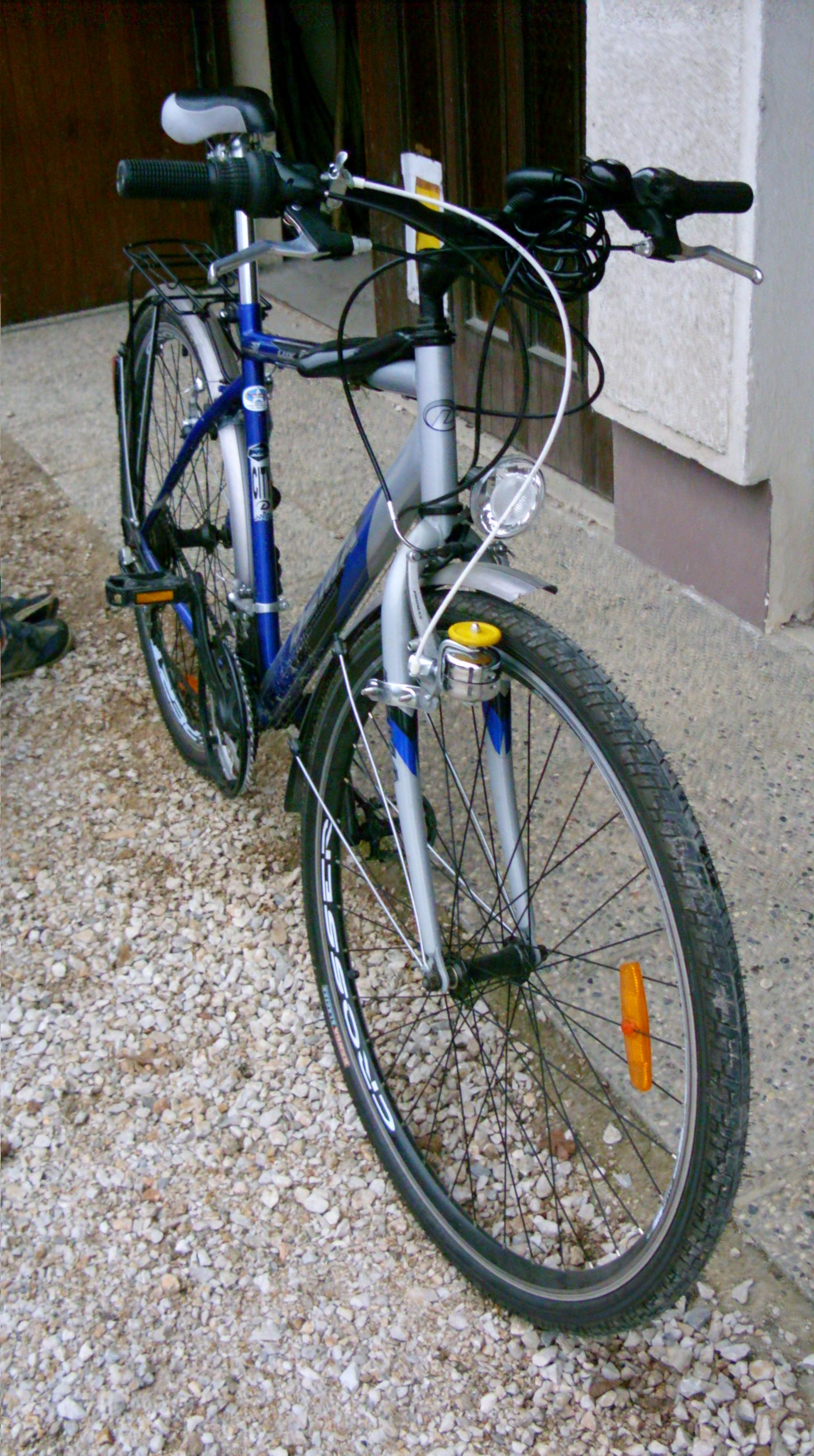 Bicycle with revolving bell